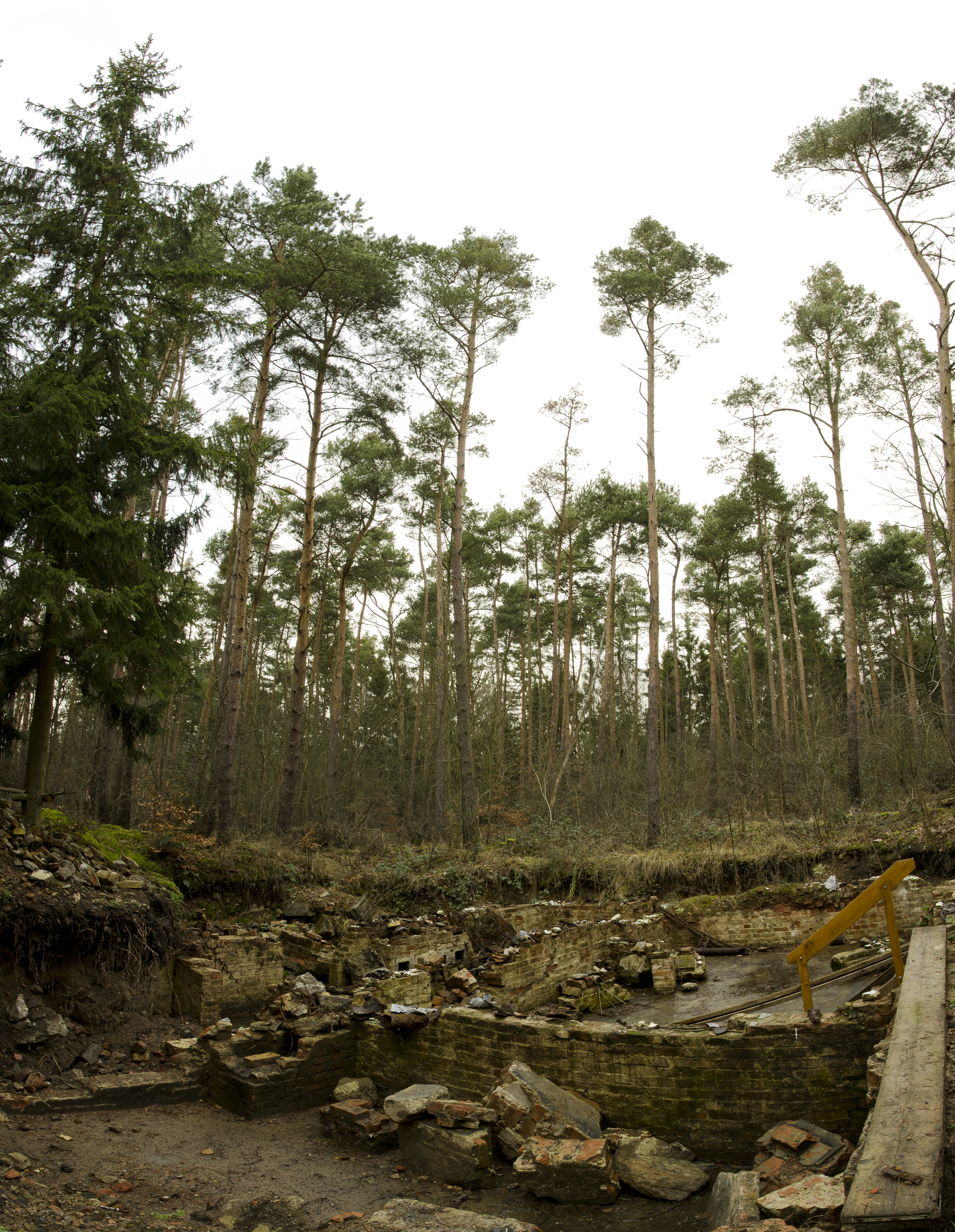 Remains of the former cellar of the kitchen barrack - labour camp Walldorf / Frankfurt Airport - Outpost of the concentration camp Natzweiler-Struthof. In use from August until December 1944. Up to 1700 Hungarien jewish women were detained in the camp for forced labour on a runway construction site of the company Züblin at the Frankfurt Airport. About 50 women didn't survive this time period of 4 months. From the remaining women, only about 300 survived further deportation and the holocaust.